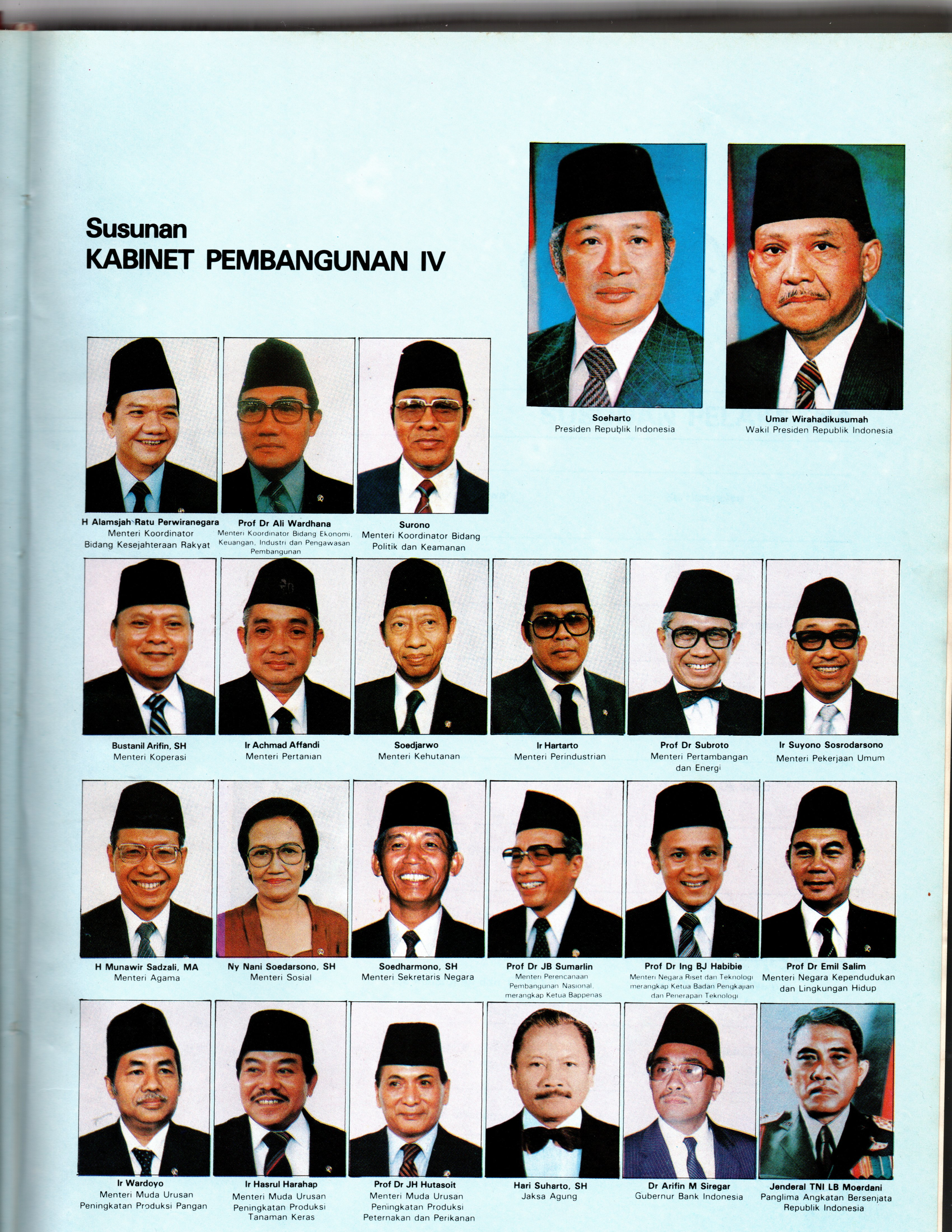 List of Ministers of the Fourth Development Cabinet.